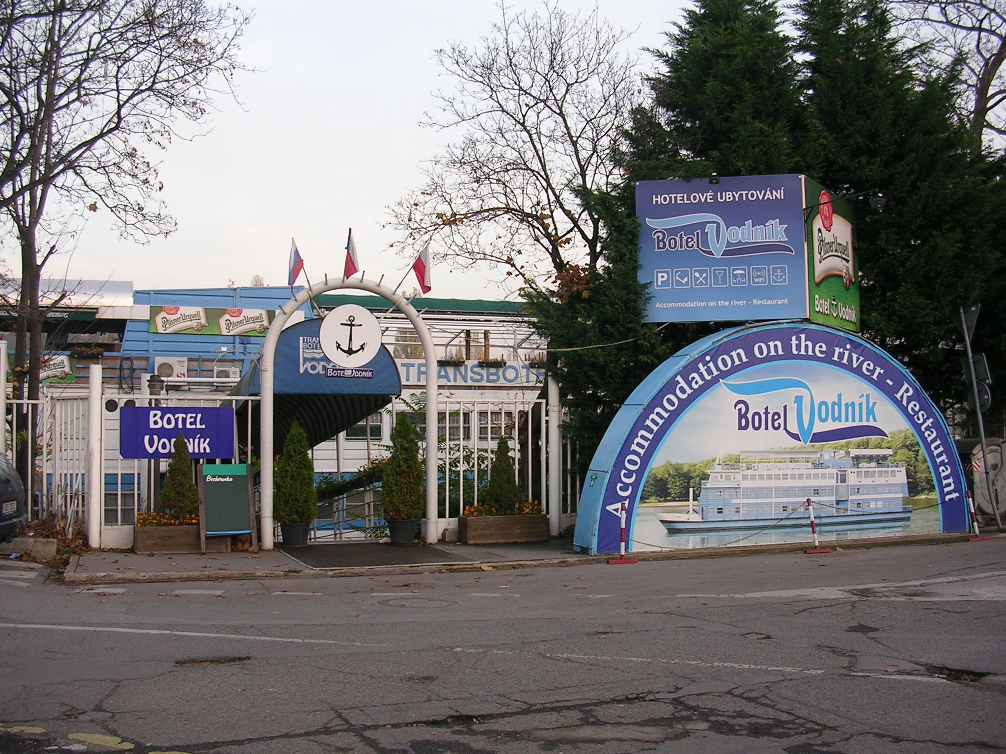 Smíchov, Prague.